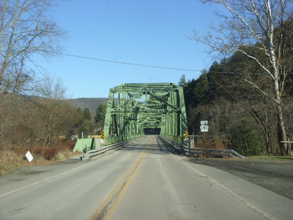 Pennsylvania State Route 191 heading northward to its eastern terminus on the bridge over to Hancock, New York.